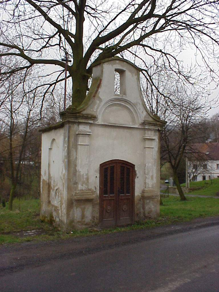 Chapel in Březí (part of Malečov municipality, Ústí nad Labem District, Czech Republic).